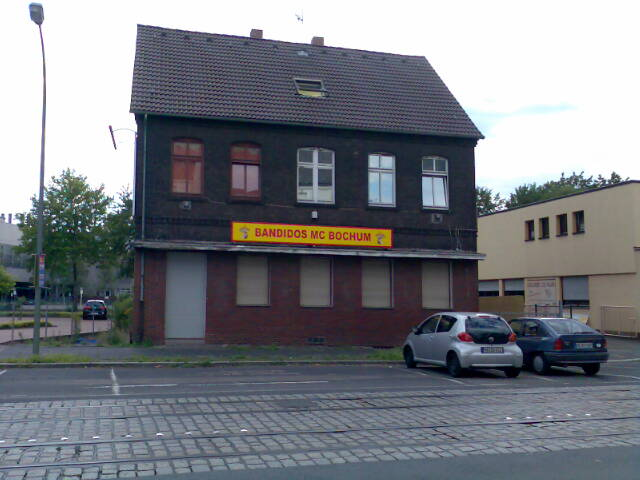 Club house of the Bandidos Bochum, Germany